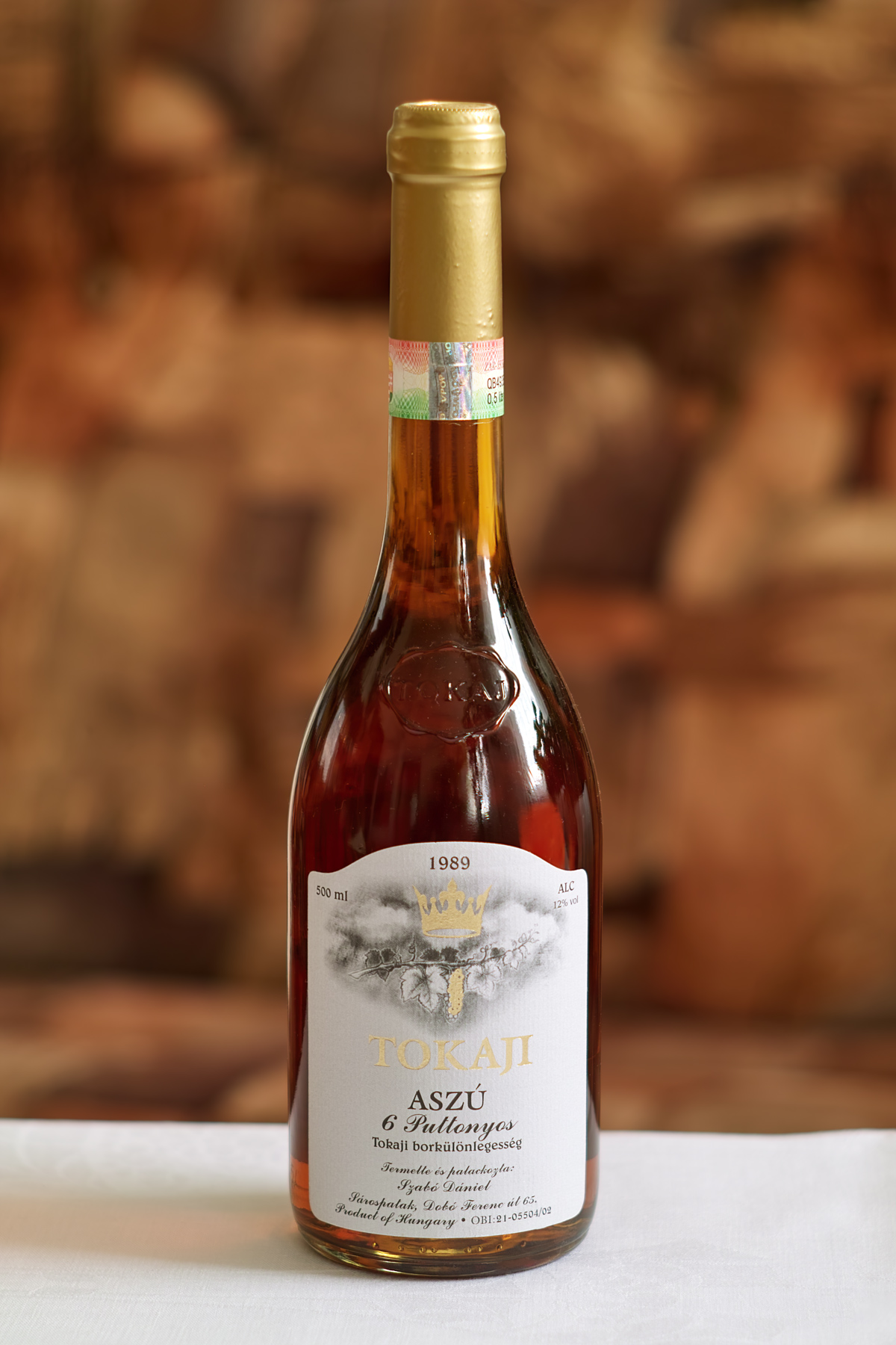 Tokaji Aszú 6 puttonyos archive, 1989